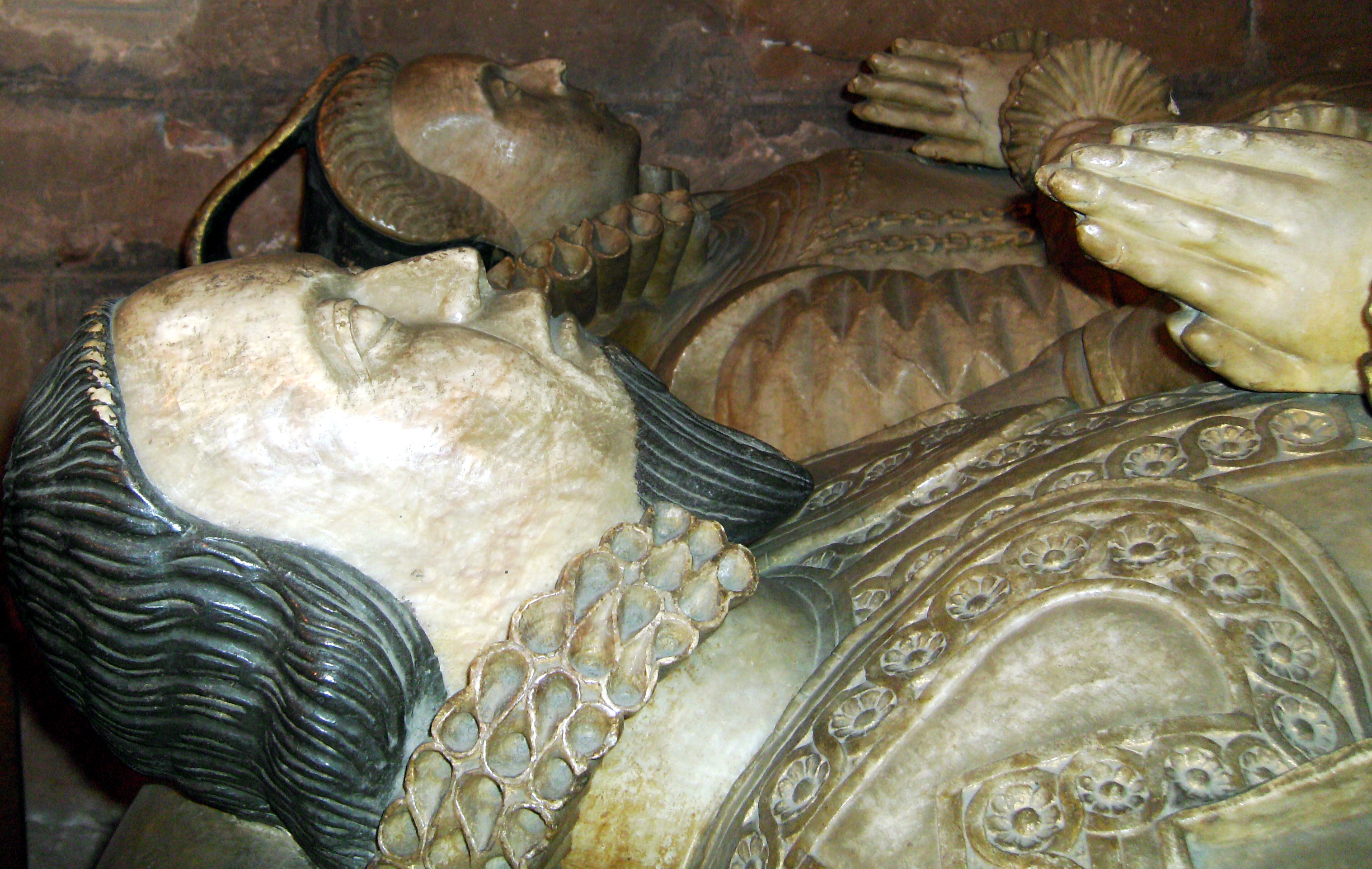 Tomb of John Giffard (d.1613), Elizabethan Recusant, and his wife, Joyce Leveson, in St Mary and St Chad church, Brewood, Staffordshire, England